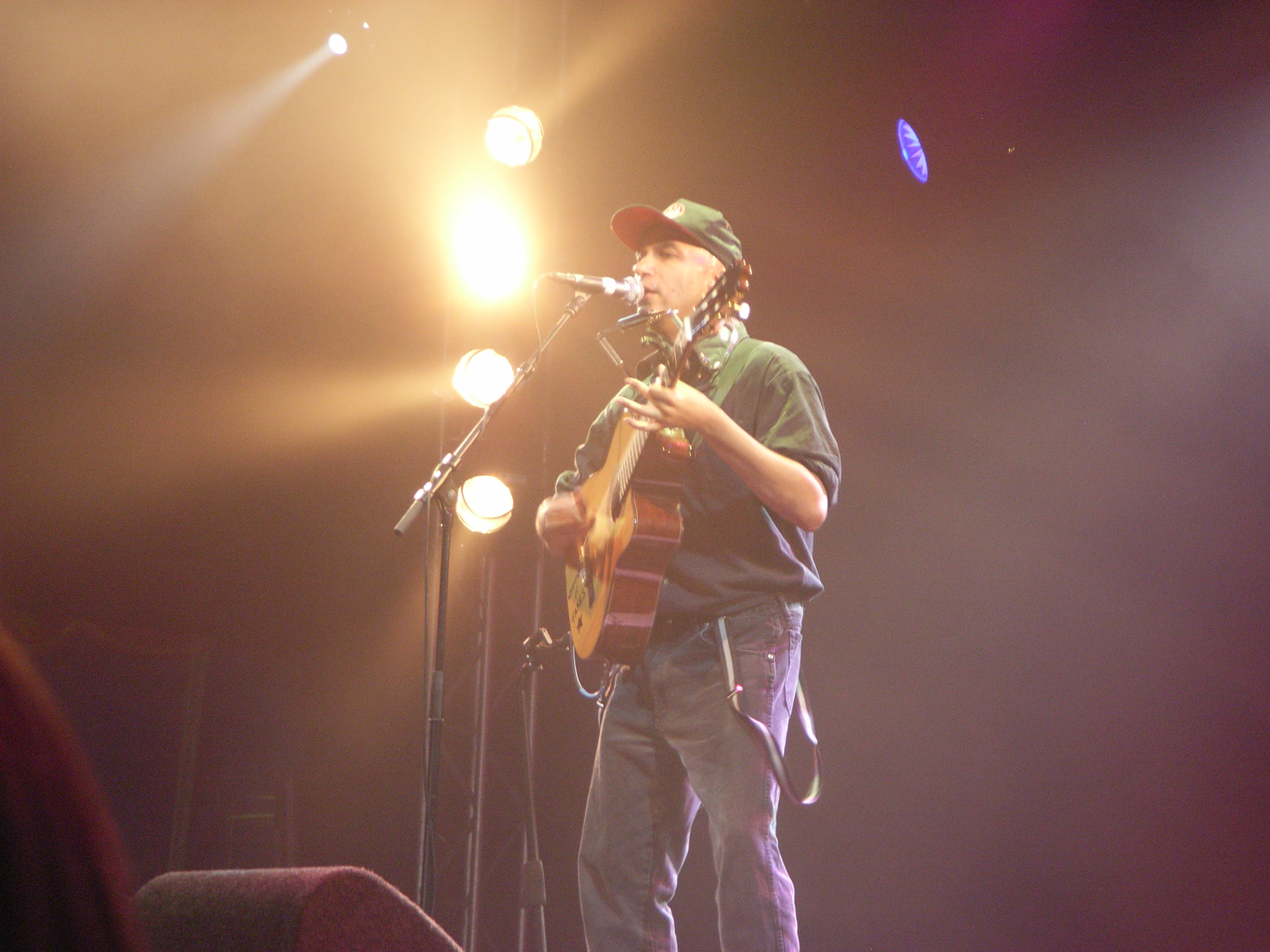 Tom Morello is the Nightwatchman at Pinkpop 2007